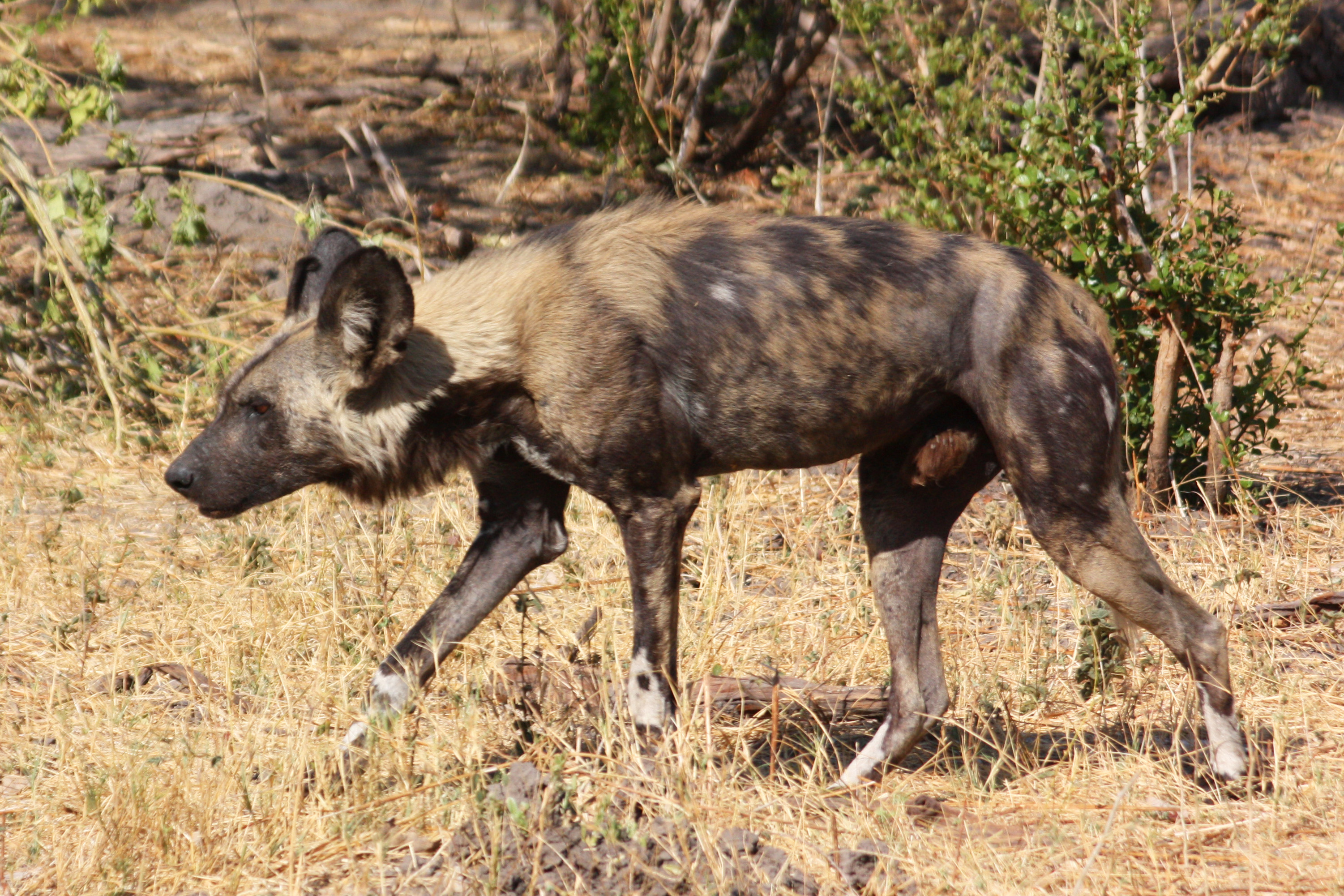 African wild dog (lycaon pictus) in the Okavango Delta, Botswana